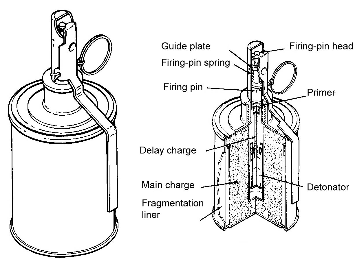 RG-42 Grenade and cutaway